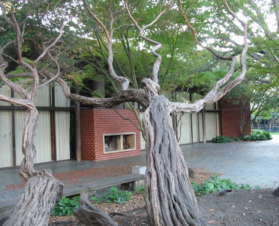 University of California, Berkeley, Alumni Building designed by Clarence W. W. Mayhew and finished in 1953. This is a view of the rear terrace used for outdoor events.